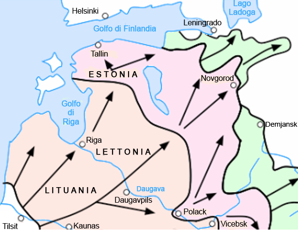 Showing Army Group North's advance into USSR in 1941. Coral up to Jul 9. Pink up to Sep 1. Green up to Dec 5.